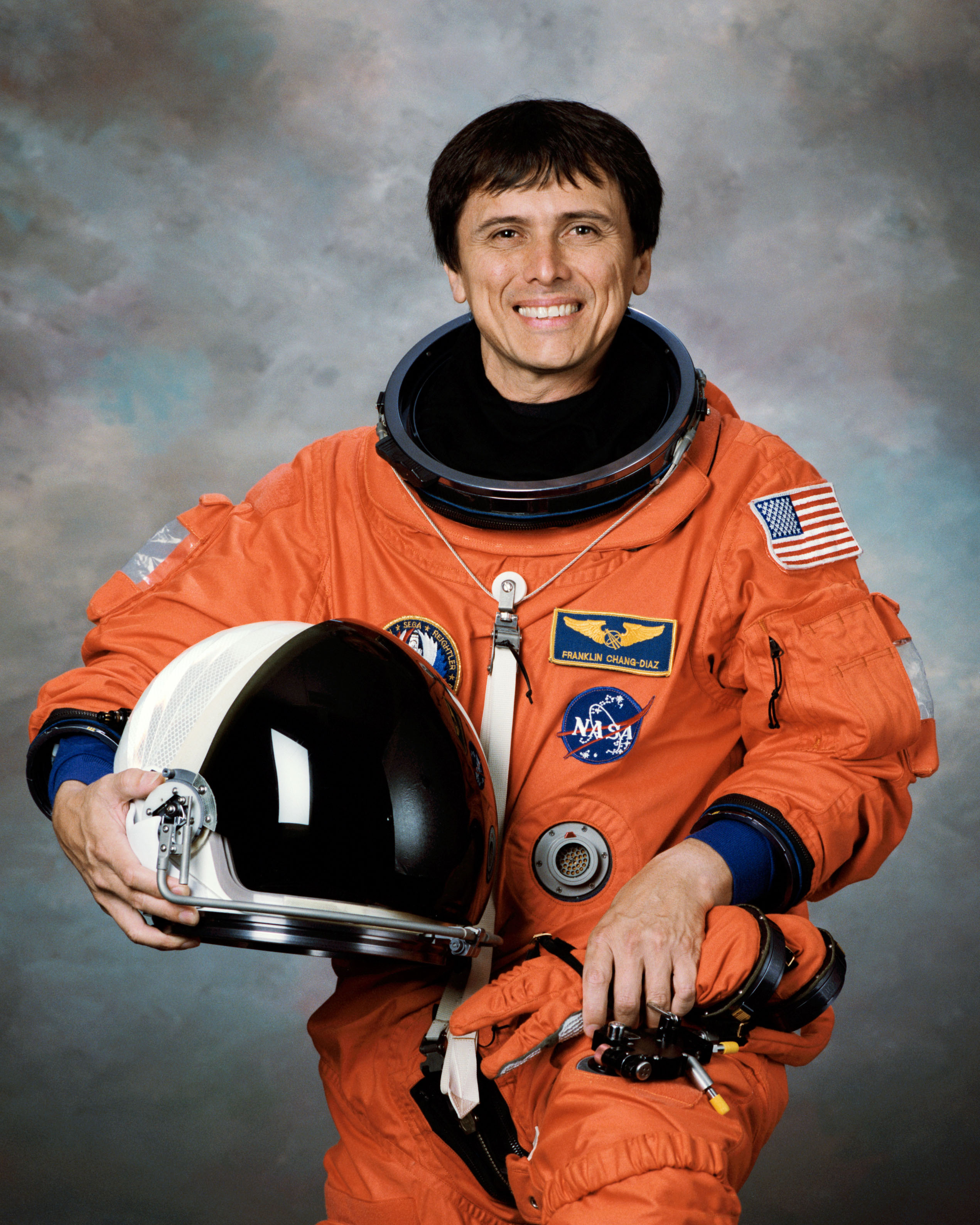 S97-06573 (30 April 1997) --- Astronaut Franklin R. Chang-Diaz, mission specialist.